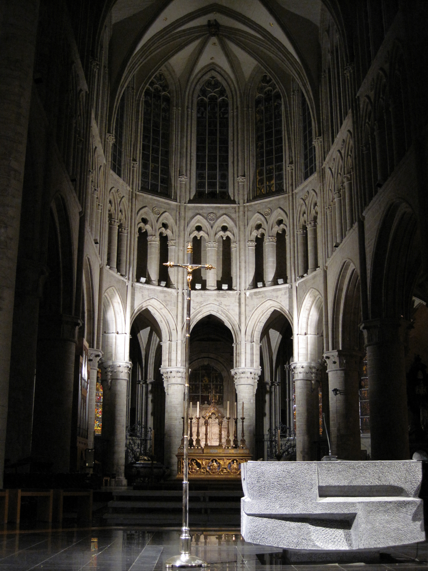 Brussels, Belgium on Jan. 8th, 2009.